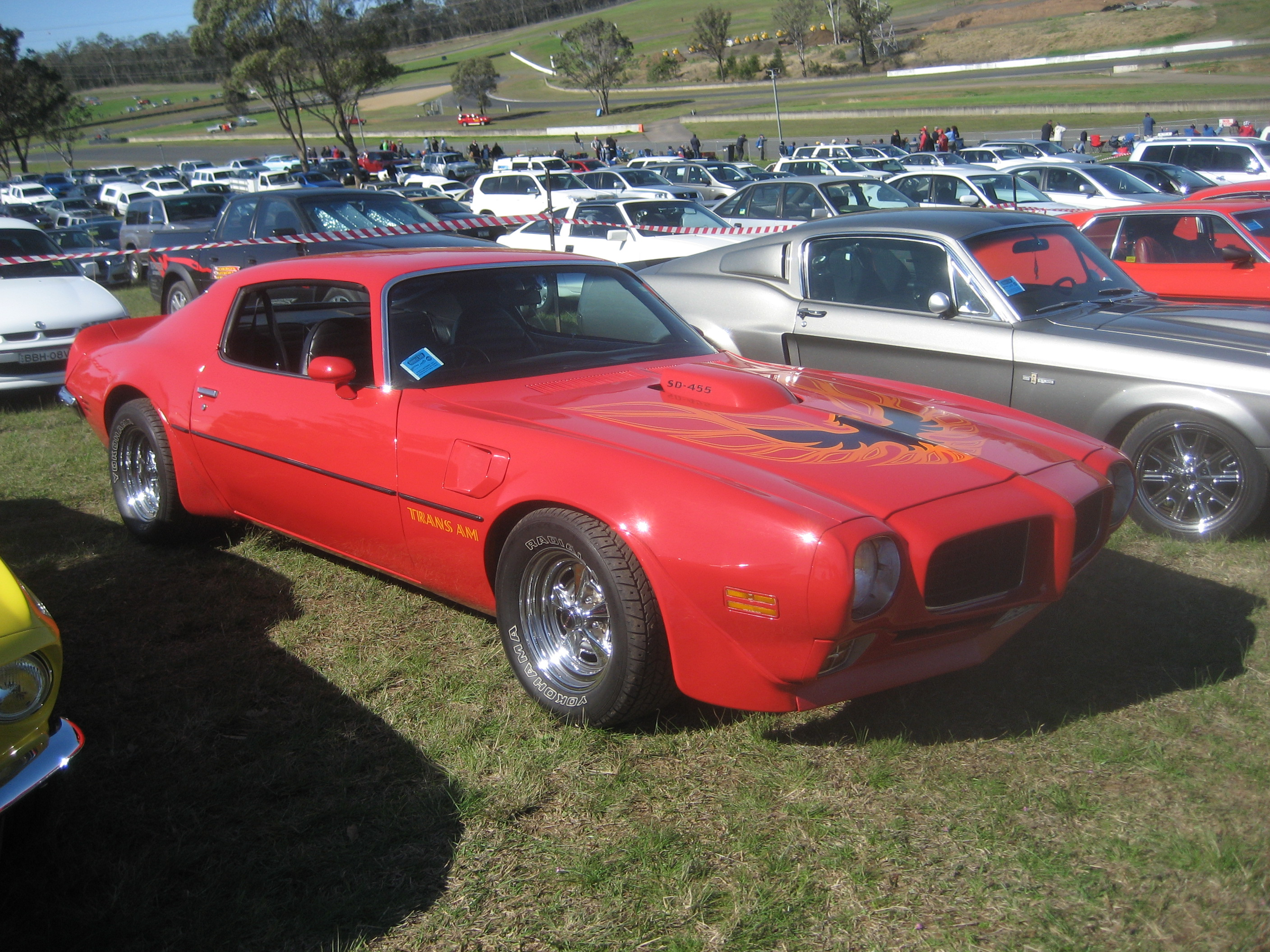 Top performing Firebird for 1973, the SD455; but only 290bhp due to tight emission laws